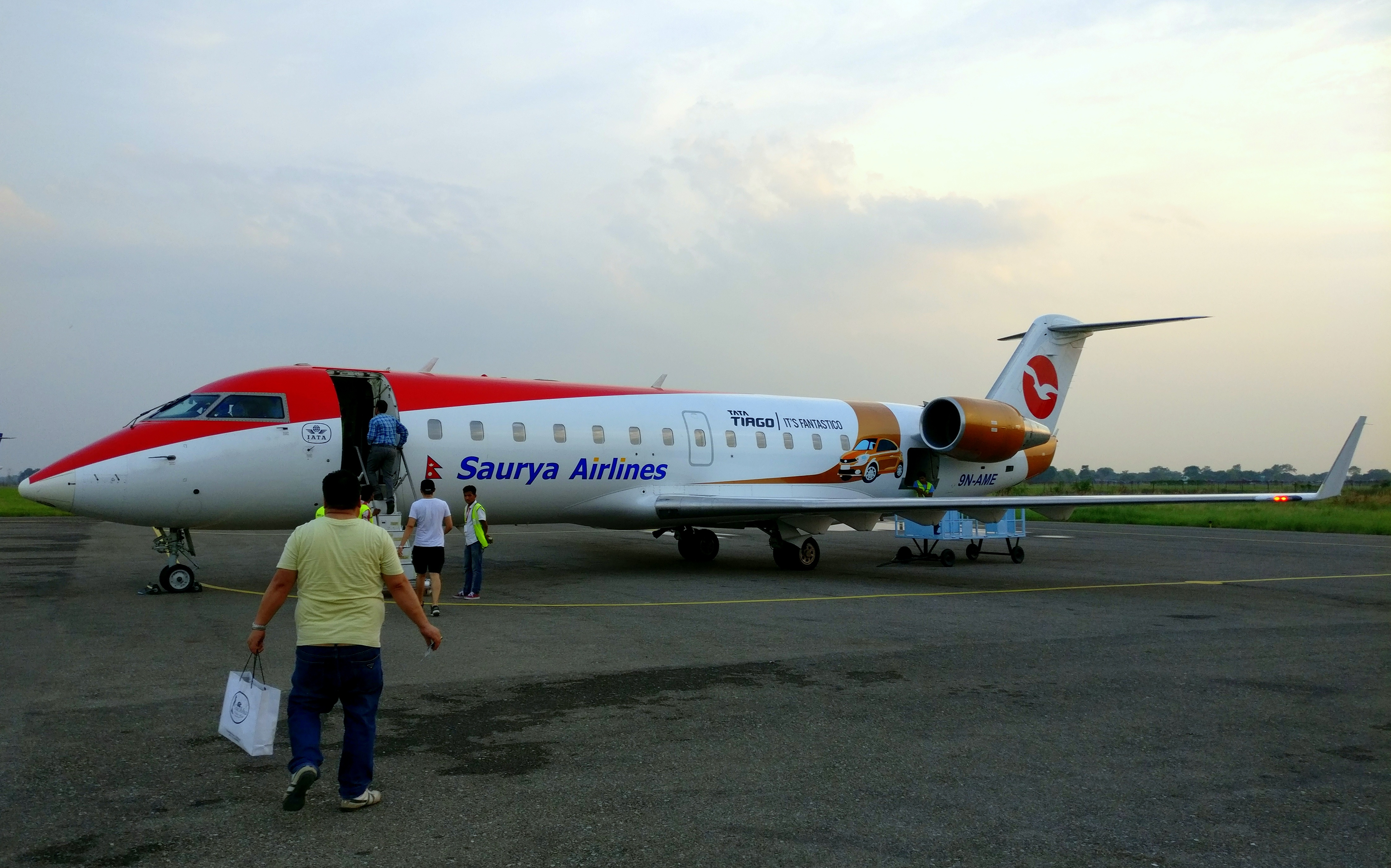 Saurya Airlines recently acquired Bombardier CRJ-200 "9N-AME" aircraft with the branding of TATA Motors on its interior and livery. The aircraft is seen here at Gautam Buddha Airport